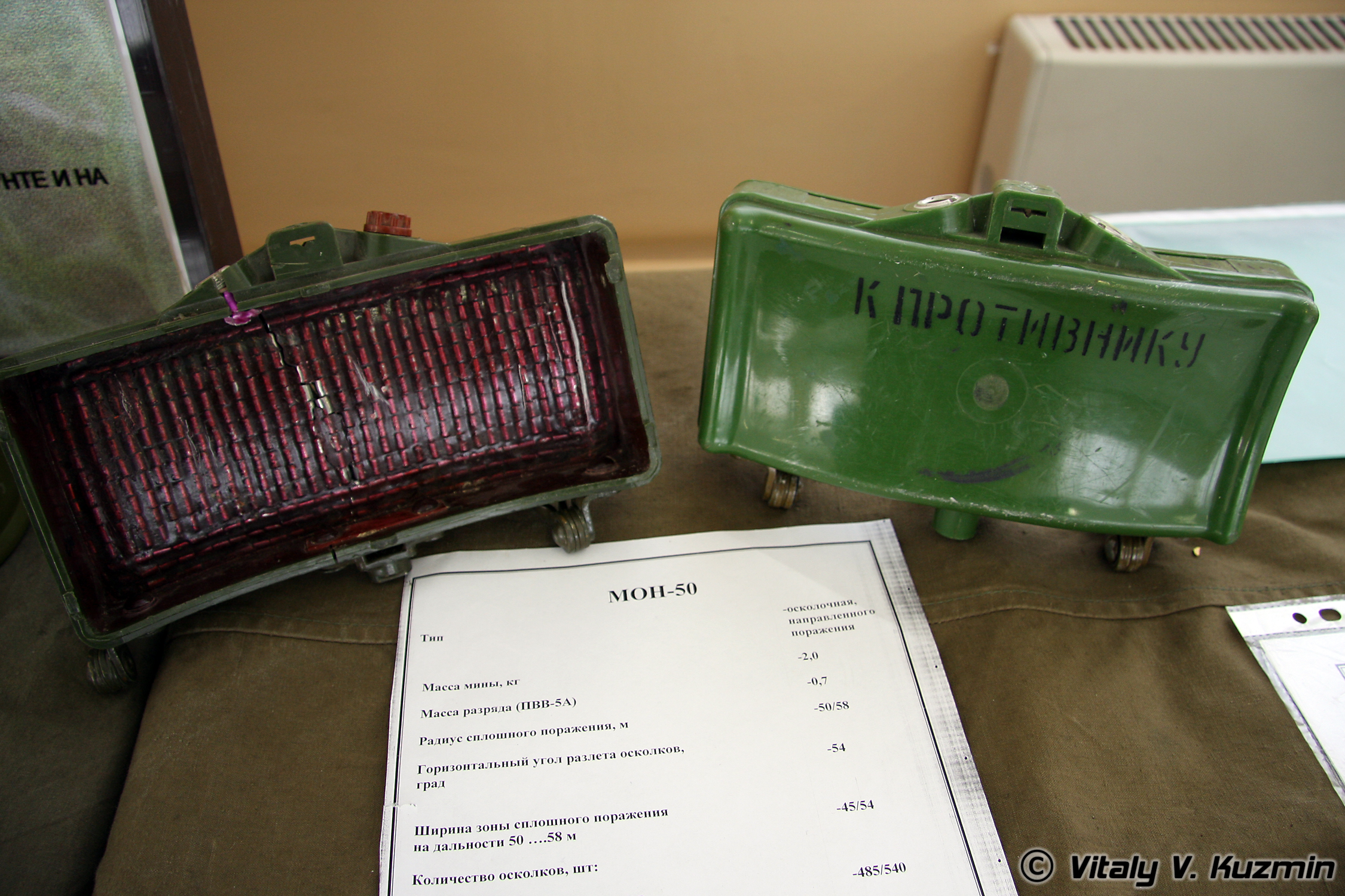 MON-50